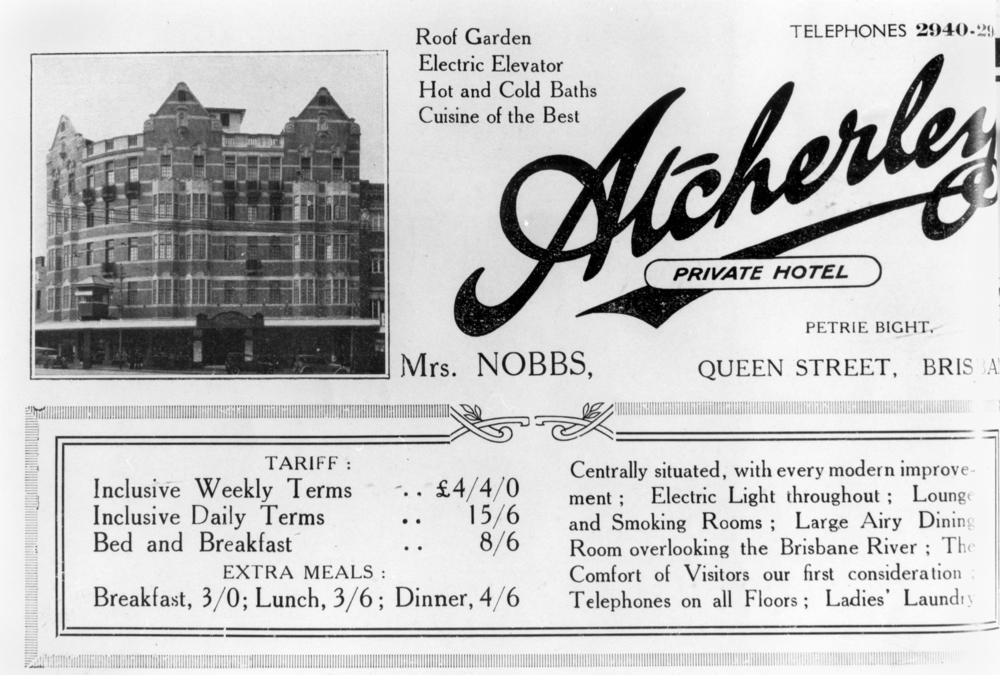 Atcherley Private Hotel, Brisbane, ca. 1927. Advertisement showing tariffs and facilities for the Atcherley Private Hotel, Petrie Bight, Queen Street.